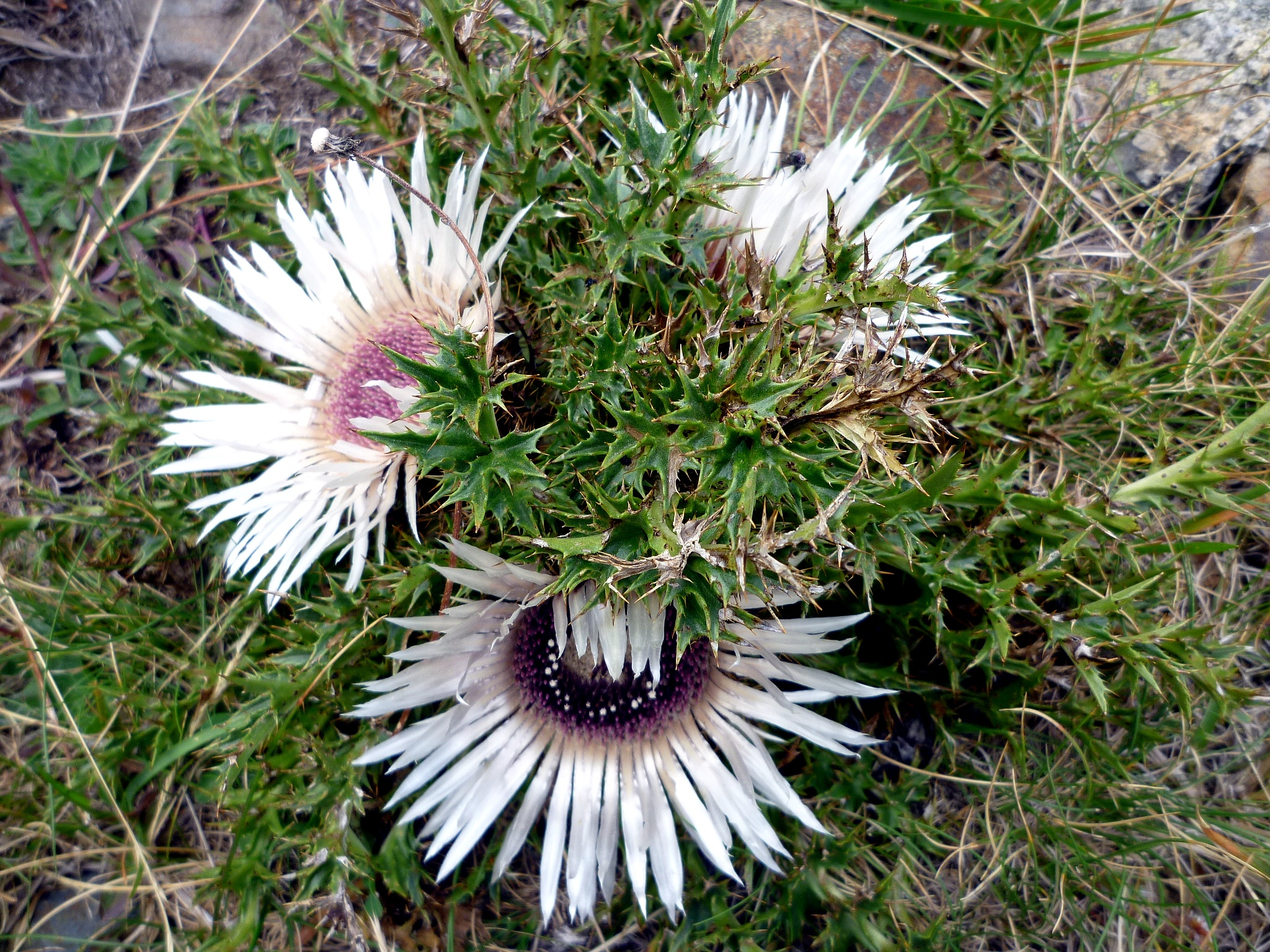 Carlina acaulis. Near the Estany Gento (Pallars Jussà - Catalunya. To 2.150 m altitude